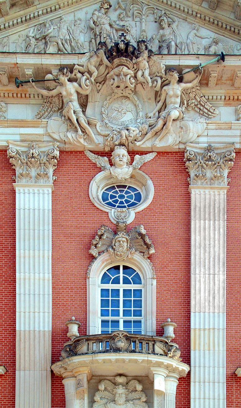 New Palace Detail in Potsdam, Germany